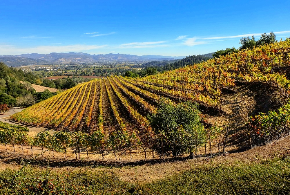 Ijevan vineyards of the Ijevan Wine factory, Tavush Armenia